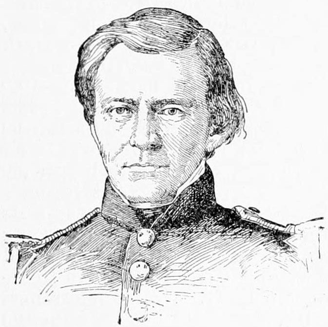 Portait drawing (bust) of 2nd Lieutenant Ulysses S. Grant around the time of his graduation from West Point in 1843